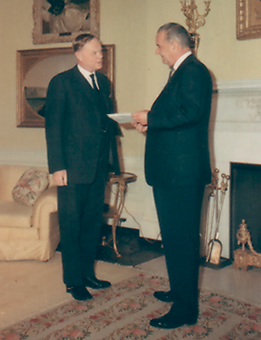 Patrick Dean meeting with Lyndon B. Johnson in the White House on 13 April 1965. Left to right: Patrick Dean, Lyndon B. Johnson.